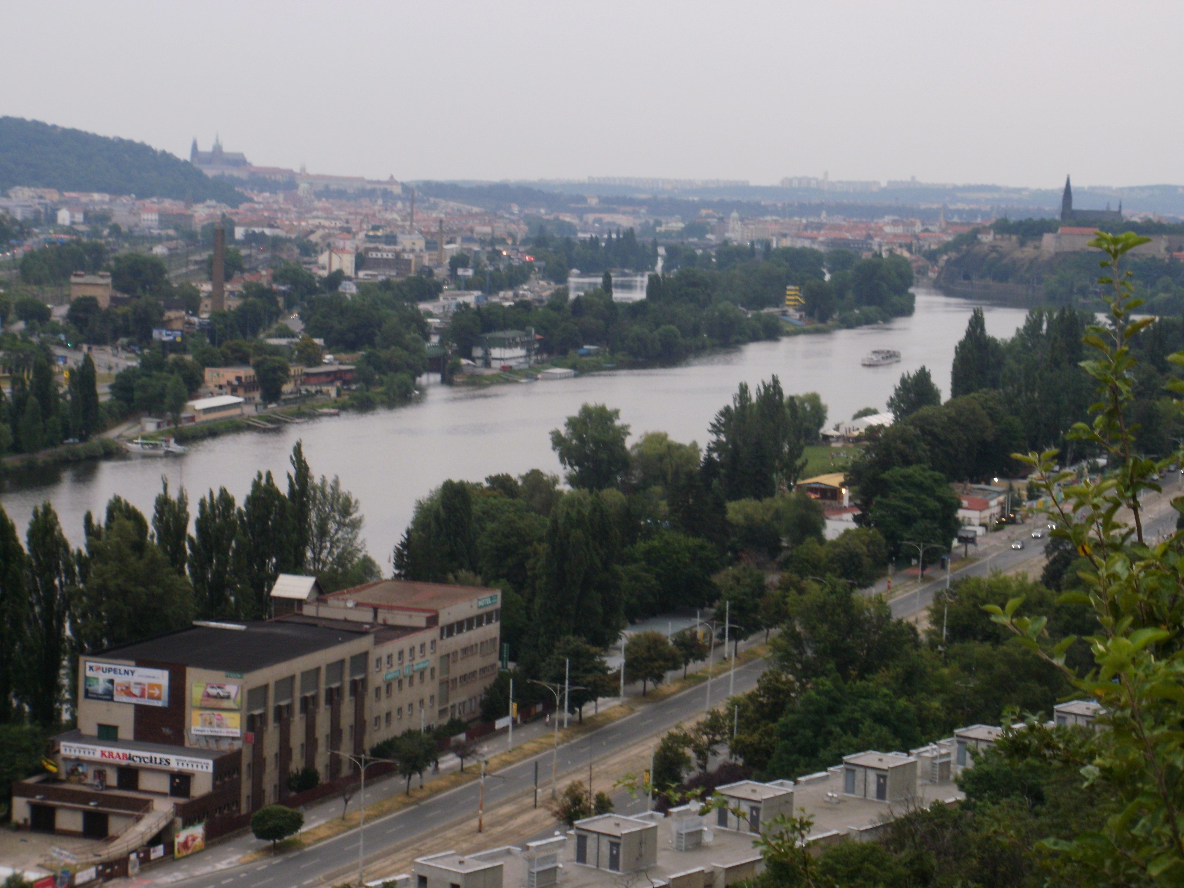 výhled z Branické skály, Praha, Česko